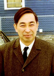 Kiyoshi Itō, Professor of Cornell University, posed for photos at Cornell University in Ithaca City, Tompkins County, New York State on 1970.